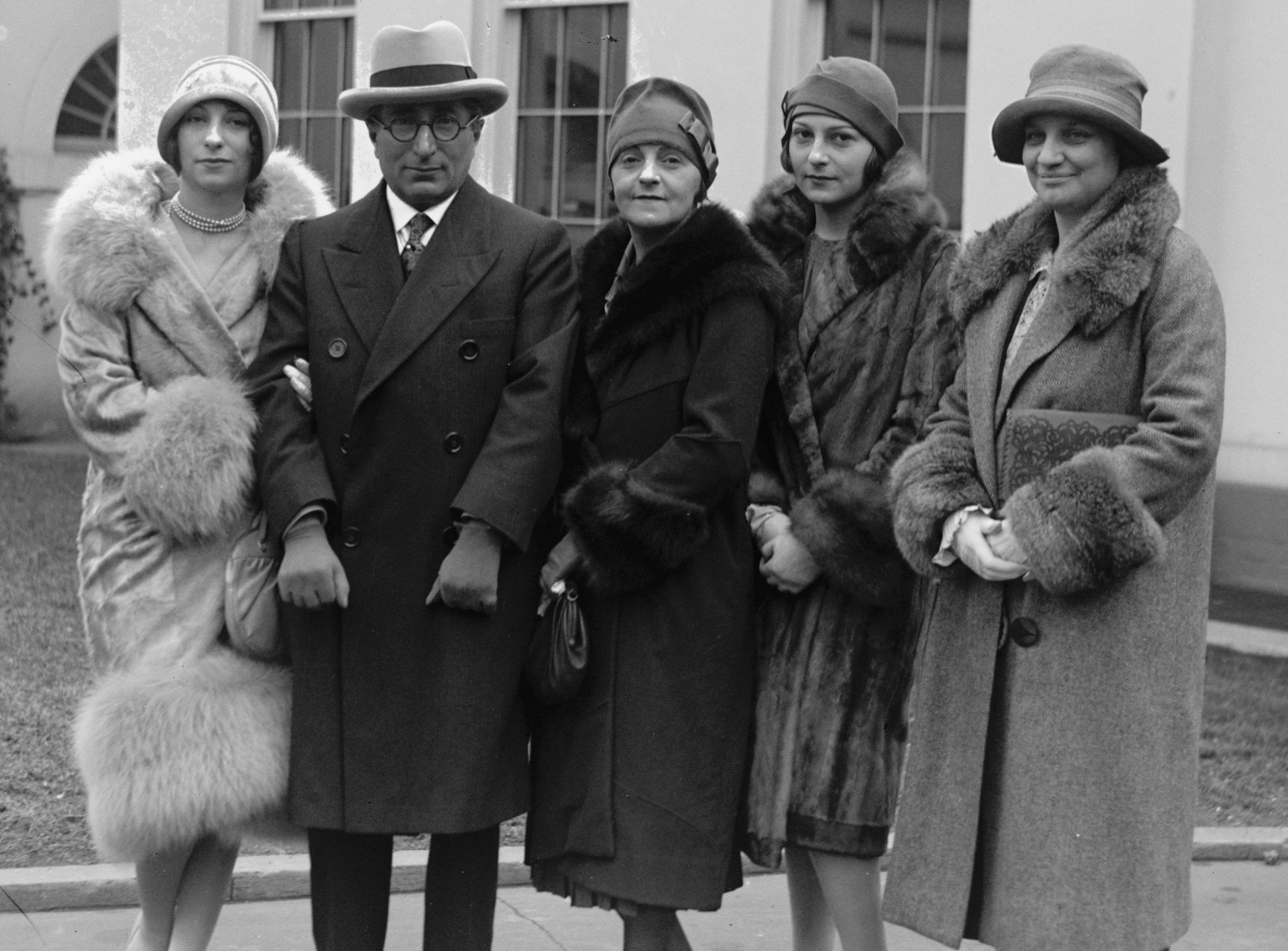 Louis B. Mayer, head of Metro-Goldwyn-Mayer Corp. calls at the White House with his family. Left to right: Edith Mayer, Mr. and Mrs. Mayer, Irene Mayer, and Mrs. Mabel W. Willebrandt, Asst. Attorney General, who introduced them to the President.